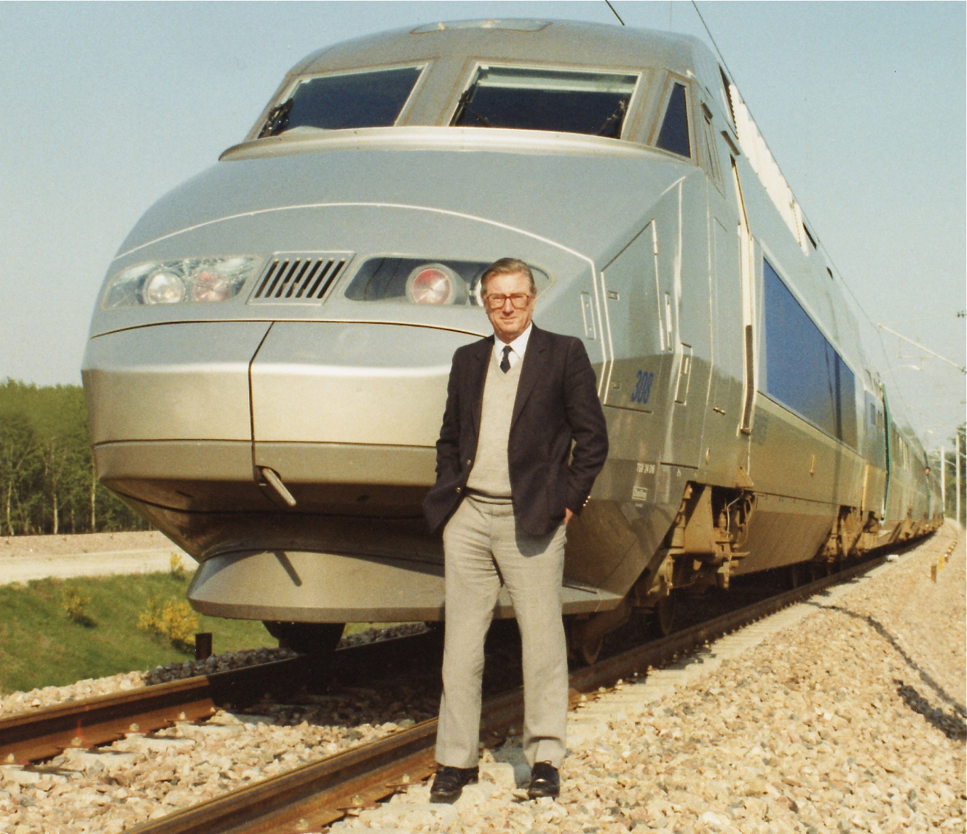 Colour photograph of man (Dr Paul Wild) in dark jacket, grey trousers, shirt and tie standing on track in front of French TGV high-speed train.